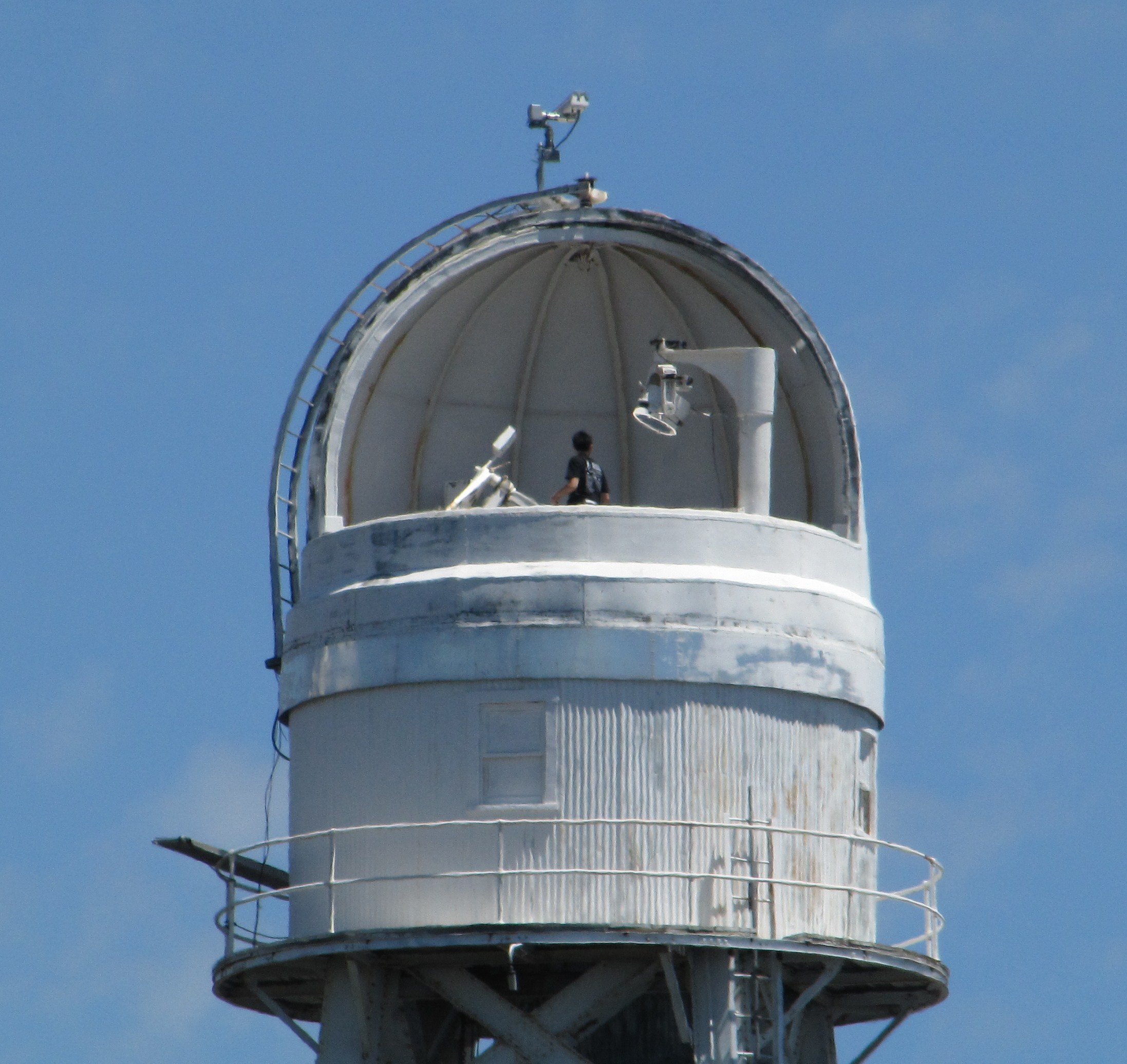 The mirrors were being adjusted by the man in the tower when this image was taken.